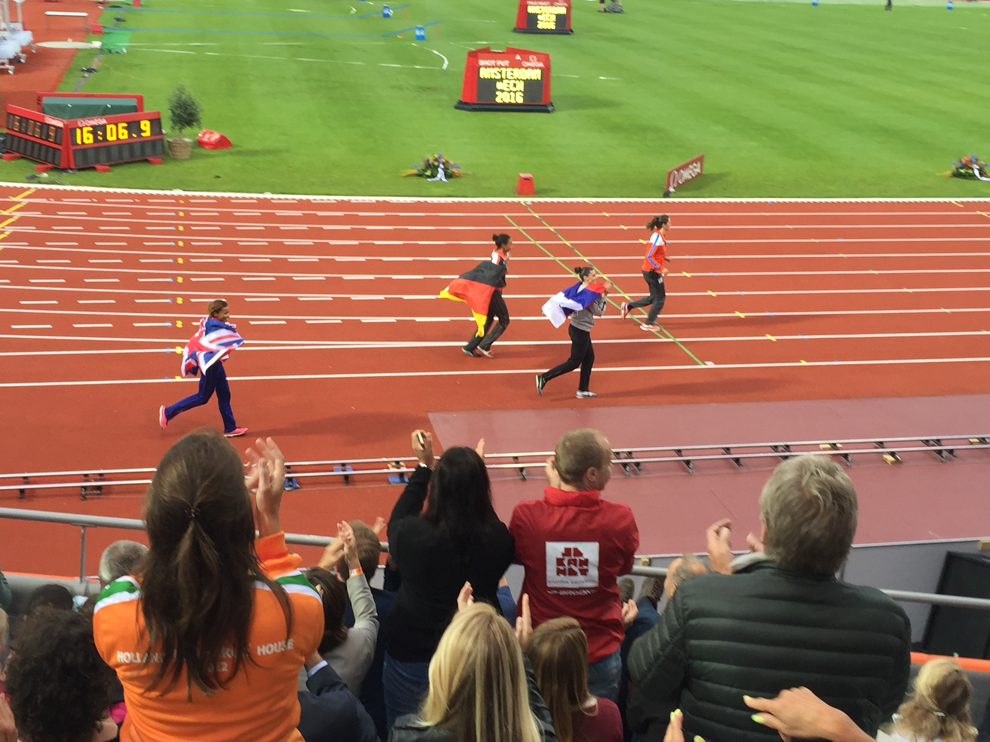 European Athletic Championships 2016 in Amsterdam - 8 July 2016 European Championships in Athletics (8 July) Schedule for this day (evening session): Hepathlon W: 18:05 Shot Put 20:00 200m Round 1: 18:15 1500m W Semi-Finals: 18:35 800m M 18:50 200m M 19:15 100m W Finals: 18:10 Hamer Throw W 19:10 Pole Vault M 19:20 Long Jump W 19:40 400m Hurdles M 19:50 400m M 20:15 Discus Throw W 20:25 400m W 20:35 200m M 20:45 10,000m M 21:25 3000m Steeplechase M 21:45 100m W